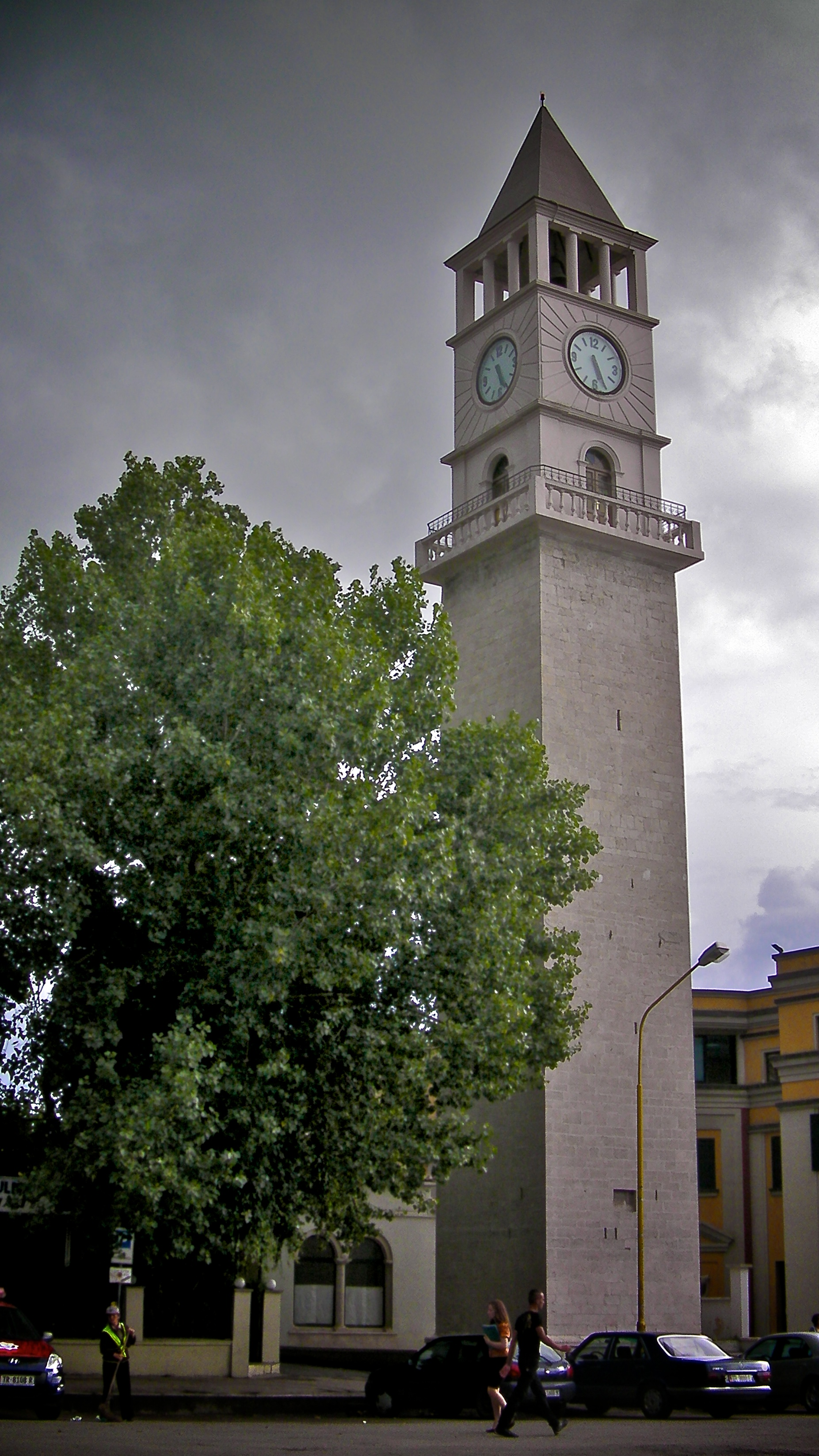 Clock Tower of Tirana